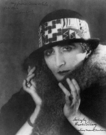 Rrose Sélavy (Marcel Duchamp). 1921. Photograph by Man Ray. Art Direction by Marcel Duchamp. Silver print. 5-7/8" x 3"-7/8". Philadelphia Museum of Art.